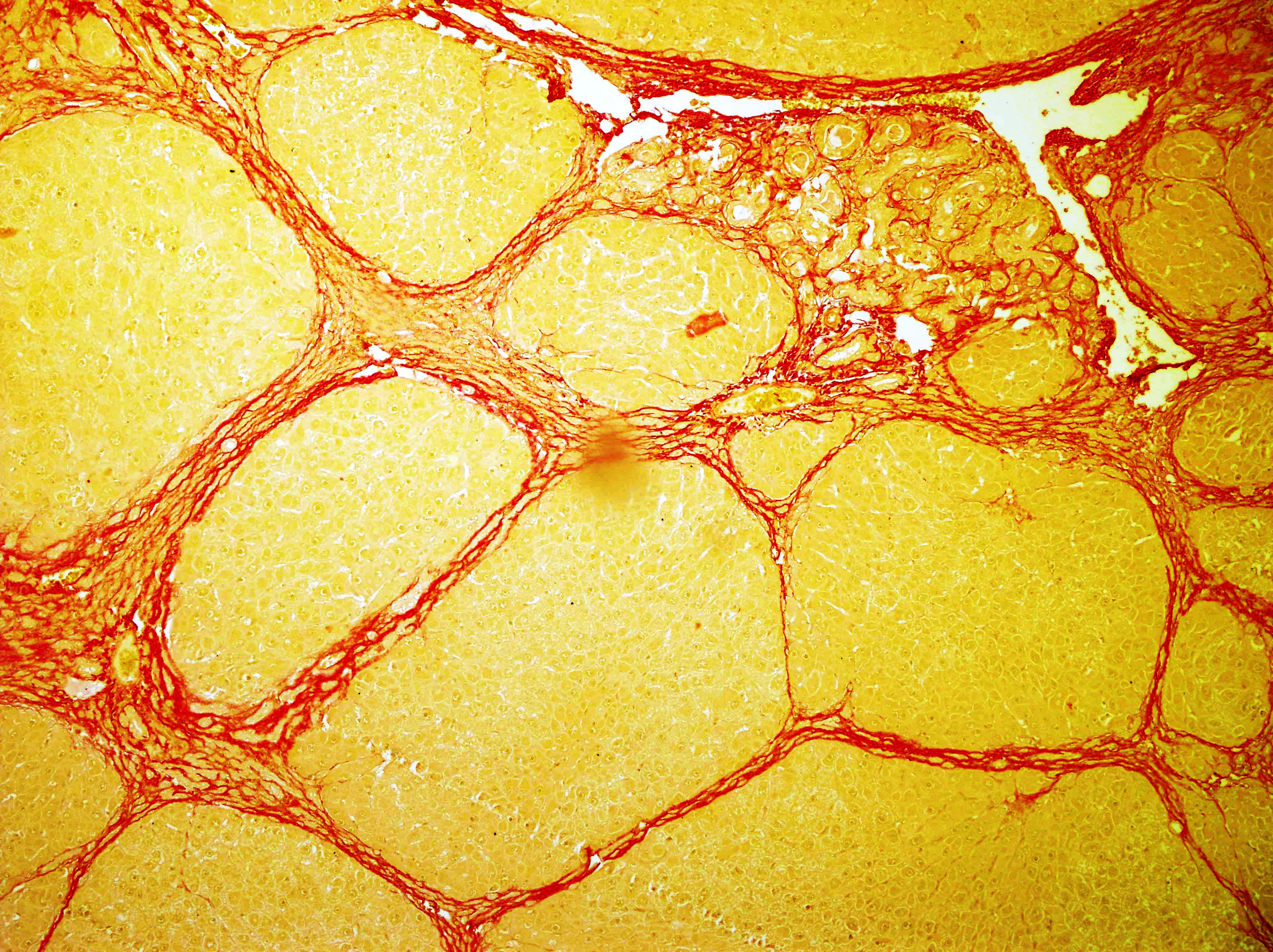 picro-Sirius red staining in the rat liver after thioacetamide (hepatotoxin) exposure at the dose of 200mg/kg, twice weekly, intraperitoneally. Red color shows the collagen deposition against a yellow background